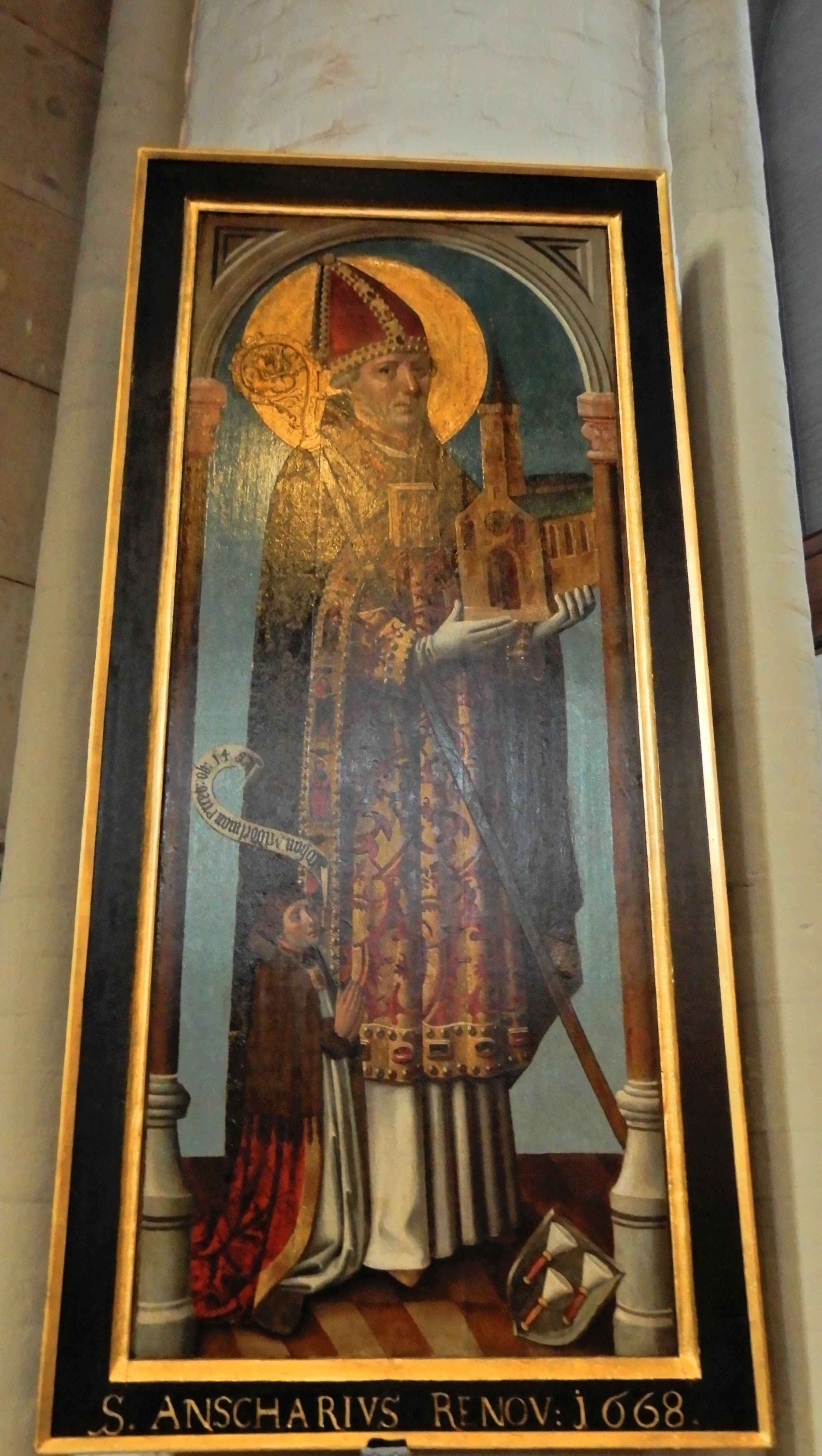 St. Ansgar, Hans Bornemann, ca 1457, renovated 1668, St. Peter's church, Hamburg